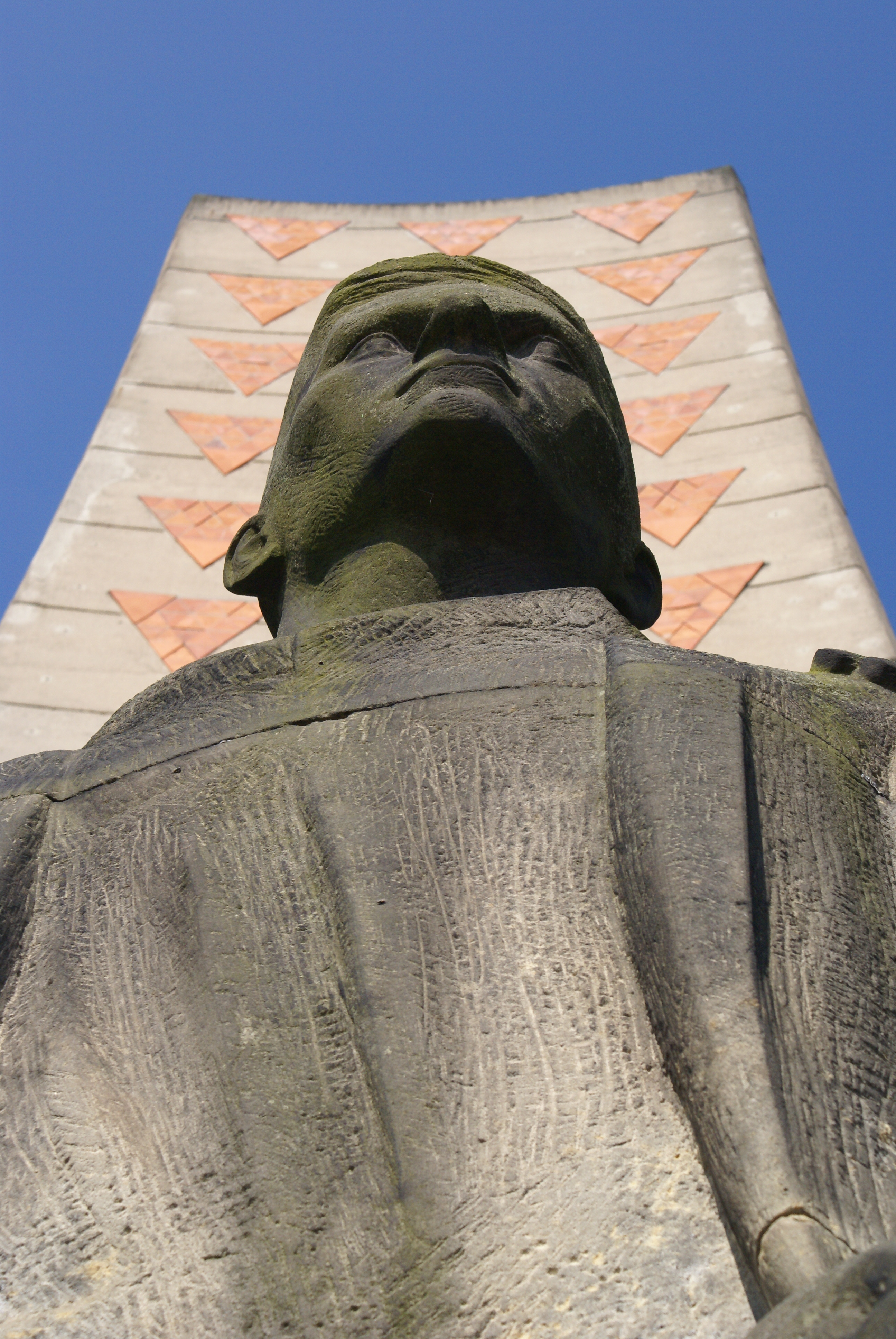 Detail Sachsenhausen Memorial